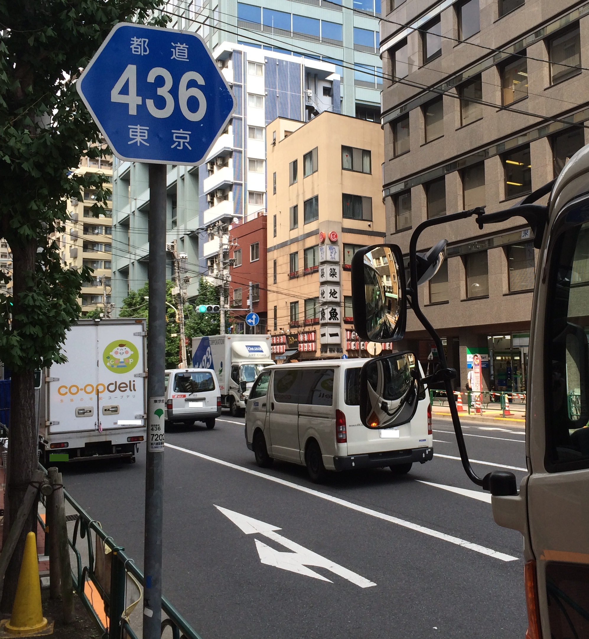 The Tokyo Prefectural Route 436. This location is Koishikawa in Bunkyo, Tokyo, Japan.